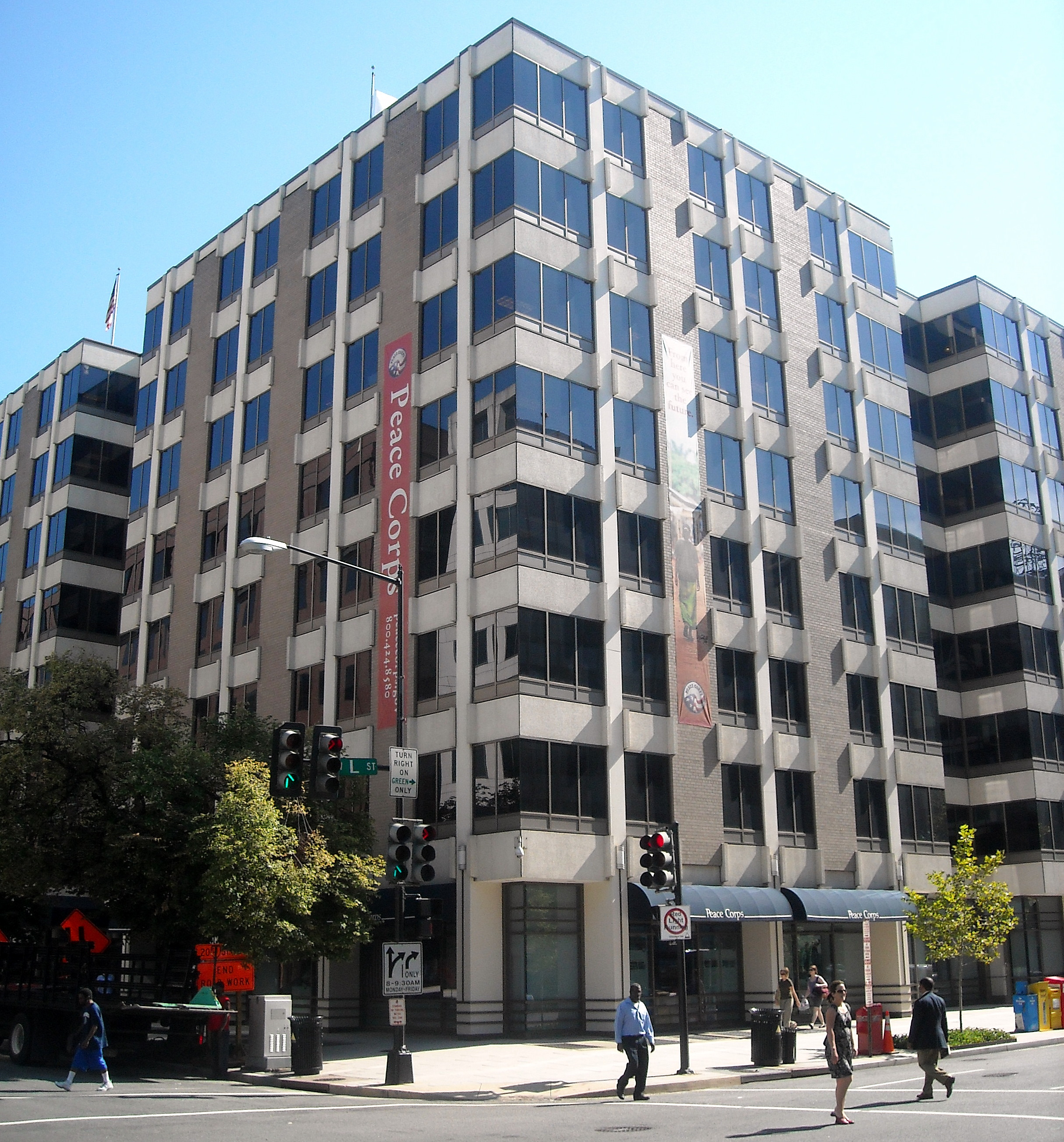 Peace Corps headquarters at 1111 20th Street, NW in the Foggy Bottom neighborhood of Washington, D.C.